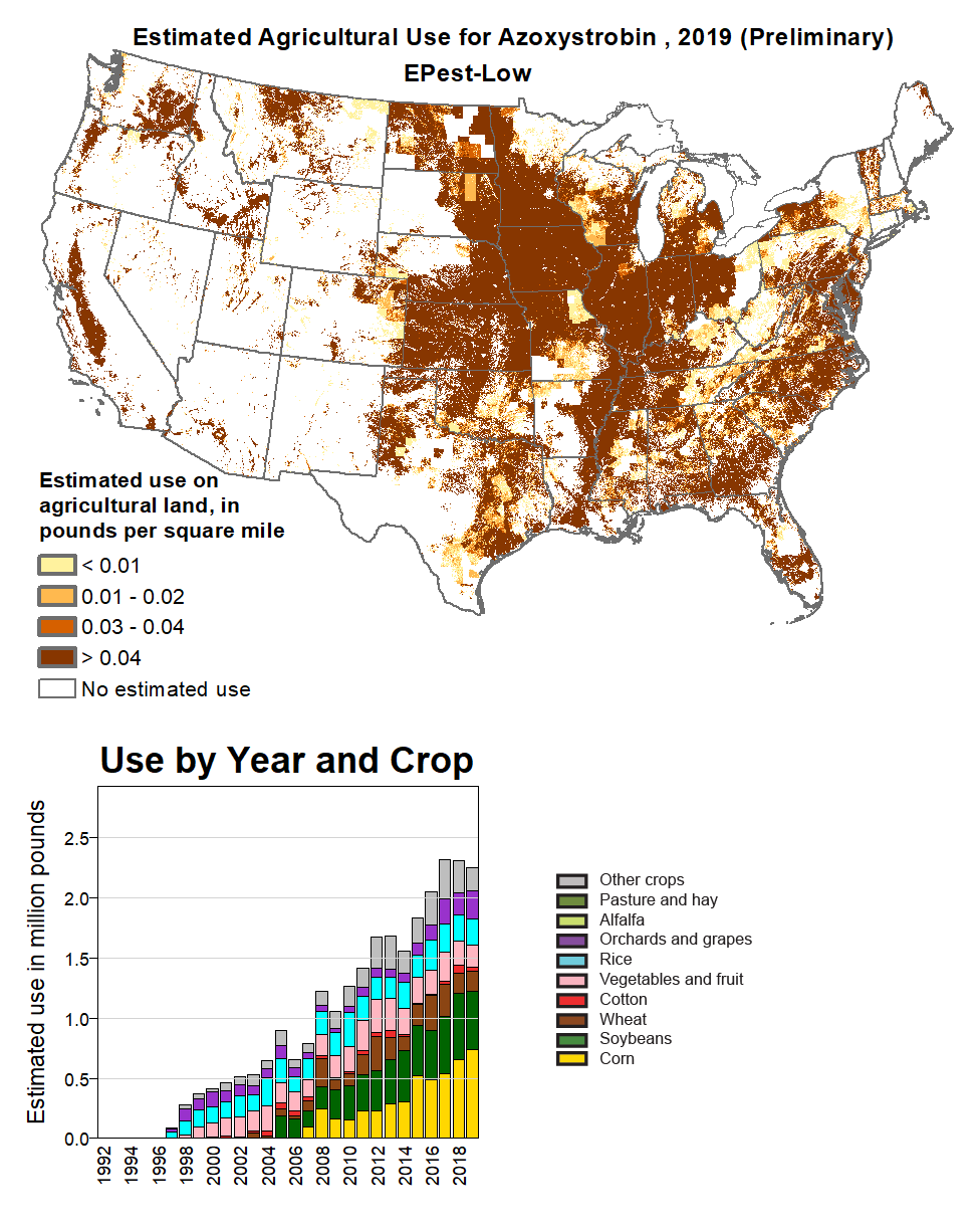 US Geological Survey map of the use of the fungicide azoxystrobin in 2016 (estimated)